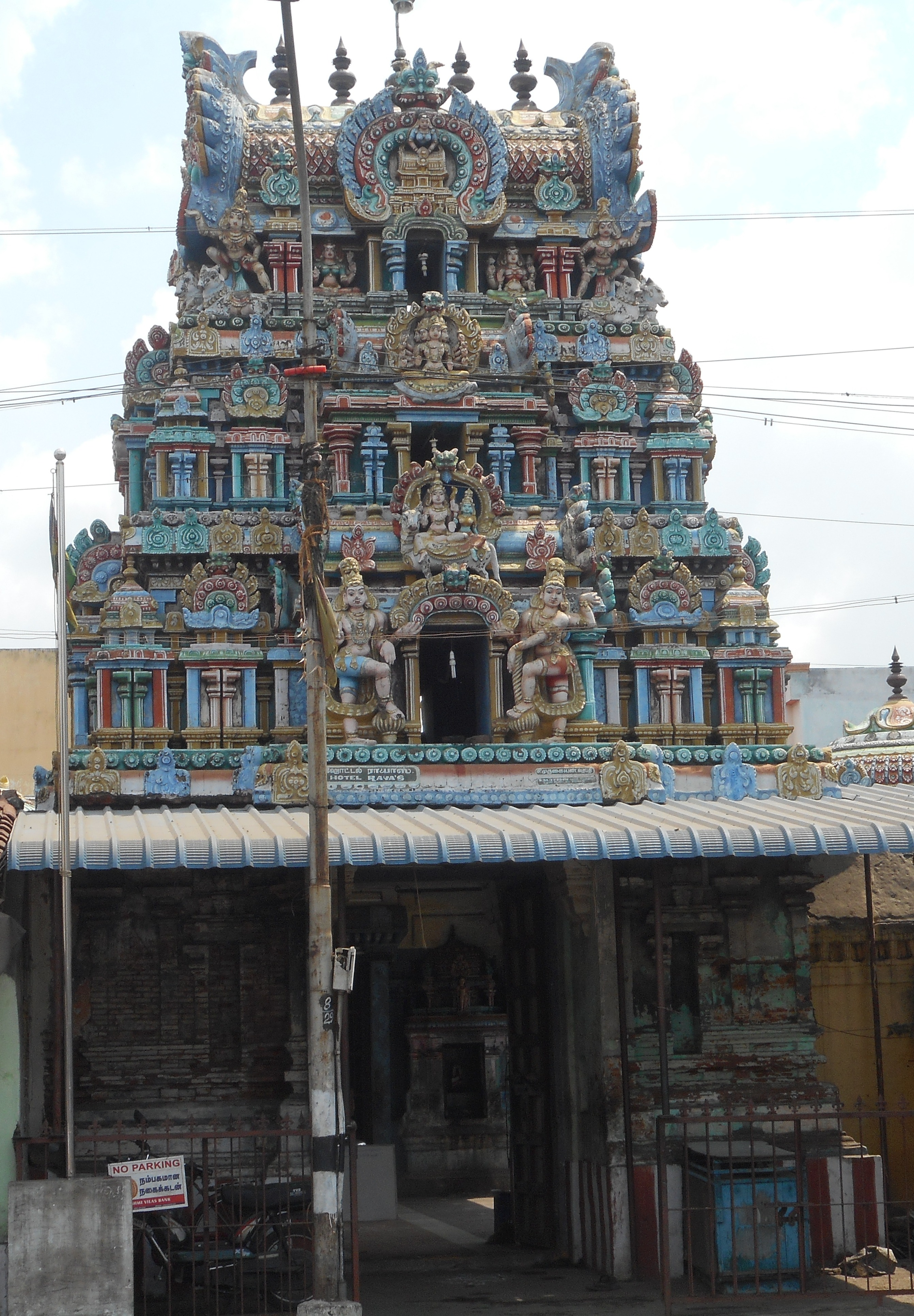 Kumbakonam Ekambareswarar temple கும்பகோணம் ஏகாம்பரேஸ்வரர் கோயில்